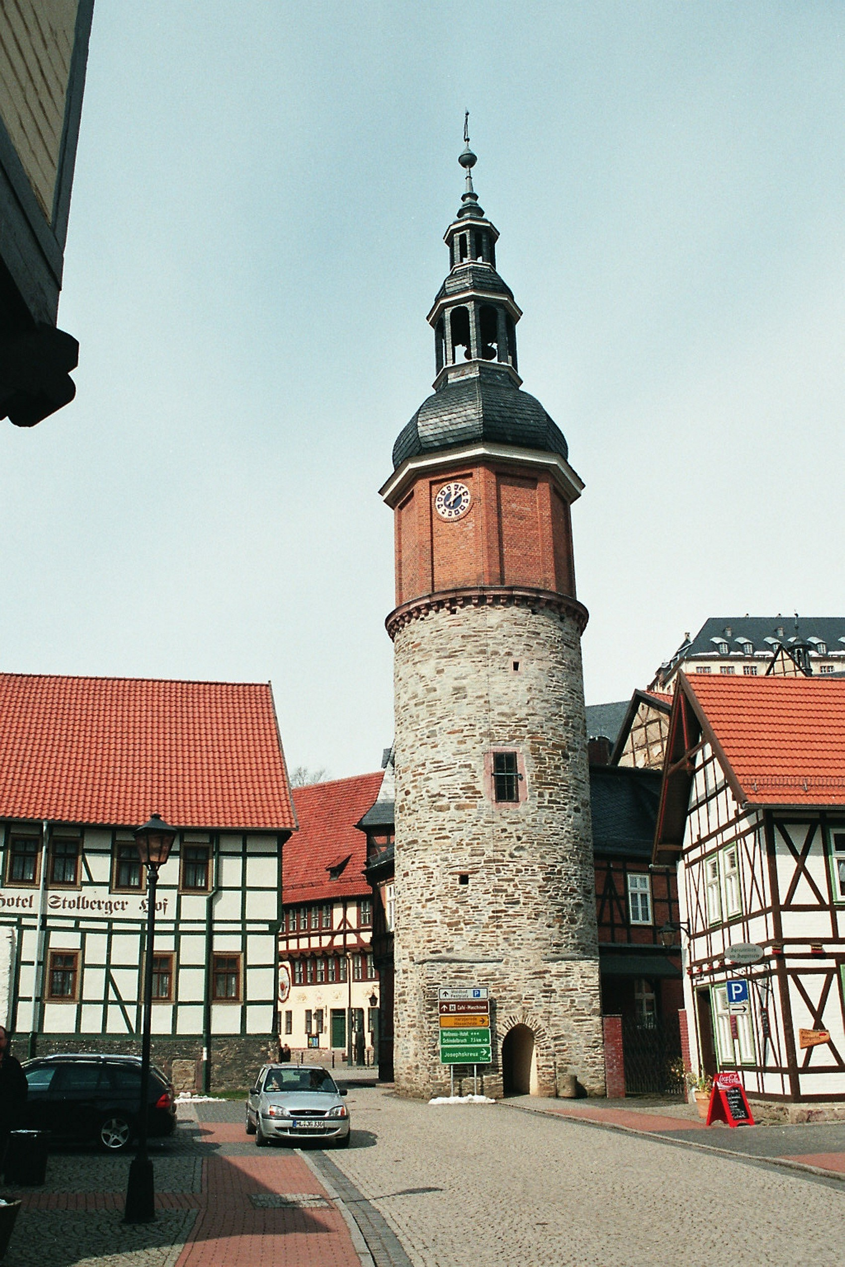 Stolberg (Harz), the market tower This is a photograph of an architectural monument. 30279